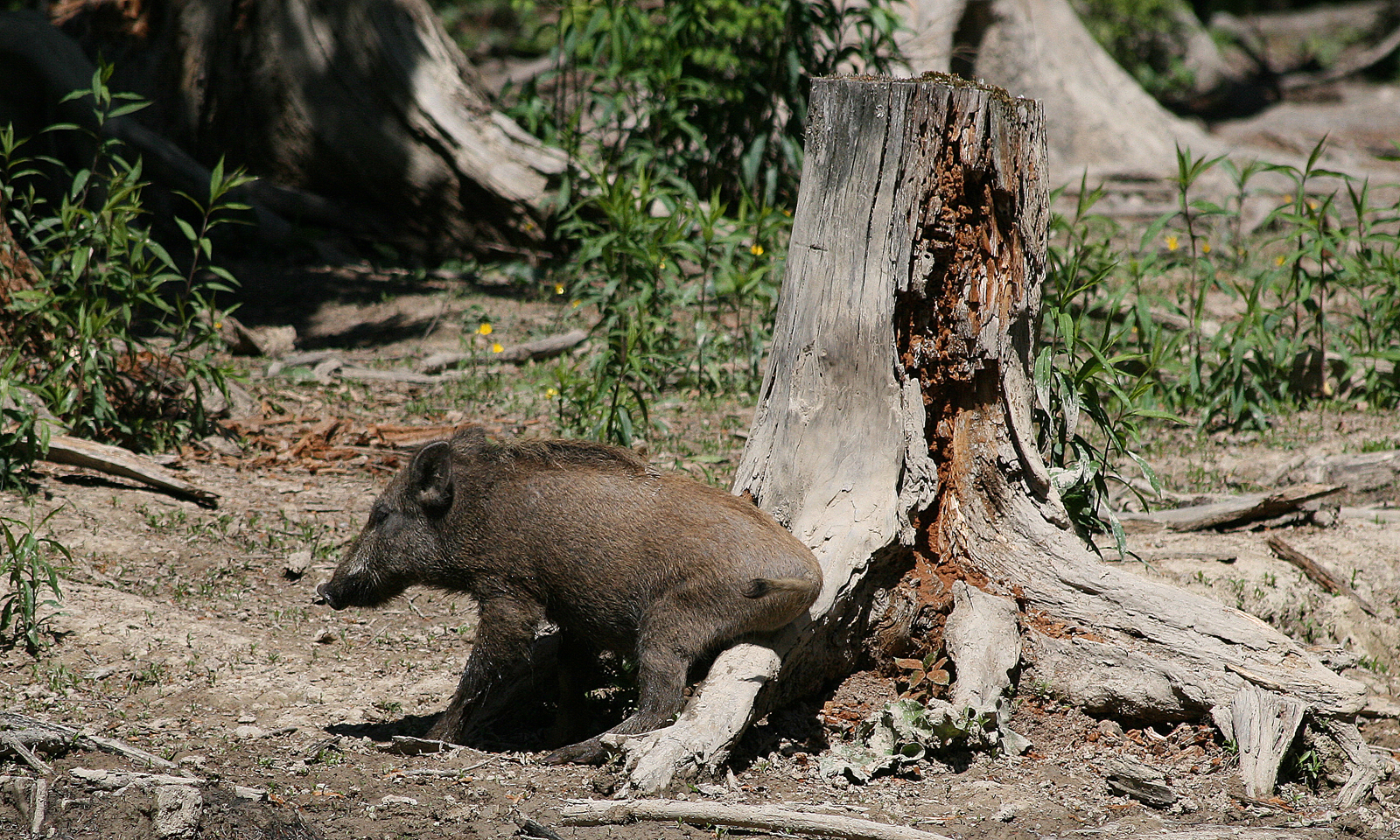 Description: The Wild Boar (Sus scrofa) is the wild ancestor of the domestic pig. As shown in his natural habitat.